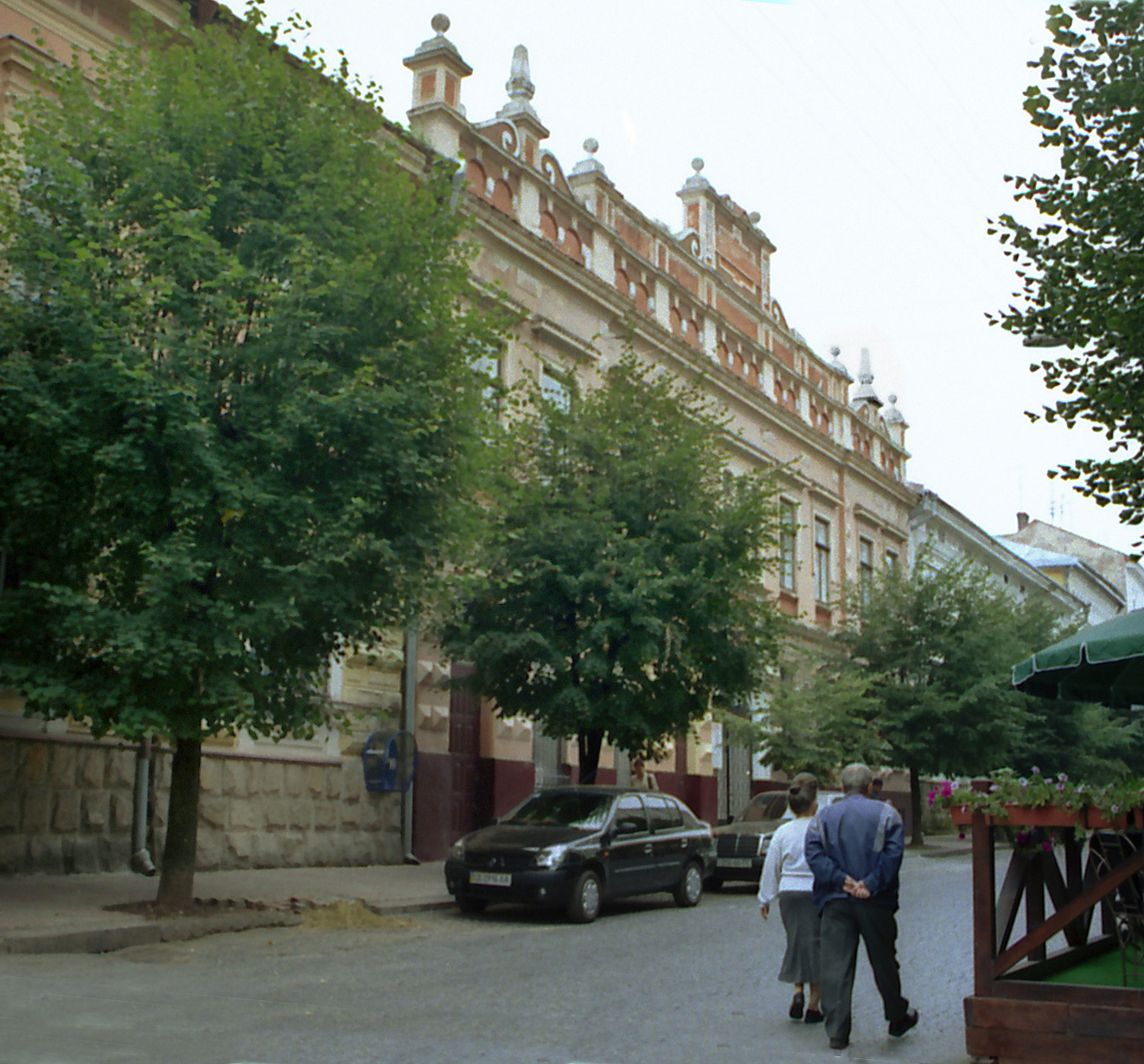 Former Polish House in Chernivtsi - built 1902